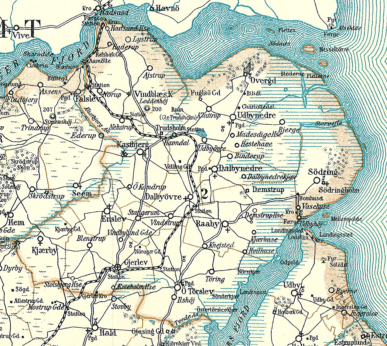 Map of Gjerlev Herred in the western part of Randers County in Denmark